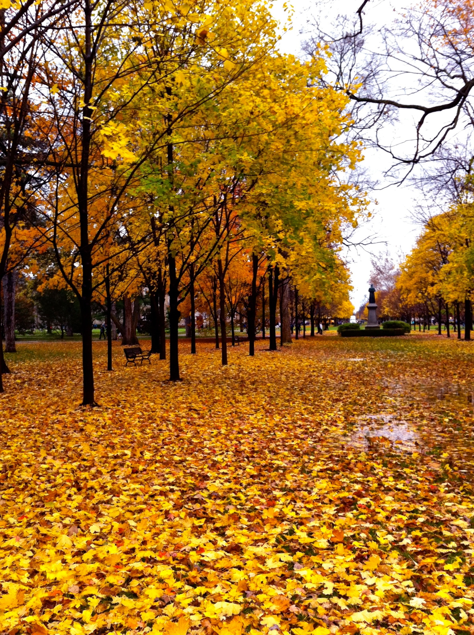 University of Notre Dame: Main and South Quadrangles